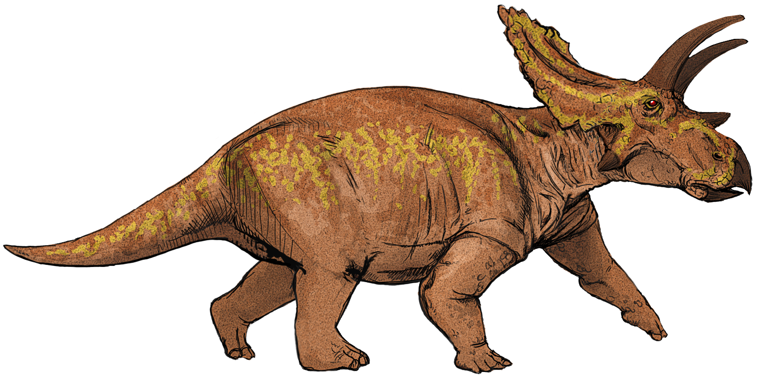 Anchiceratops (ANG-ki-SER-a-tops; meaning "near horned face", derived from the Greek "anchi -/αγχι-" "near", "cerat-/κερατ-" "horn", "-ops/ωψ" "face") is a genus of chasmosaurine ceratopsid dinosaur from the Late Cretaceous Period of western North America.